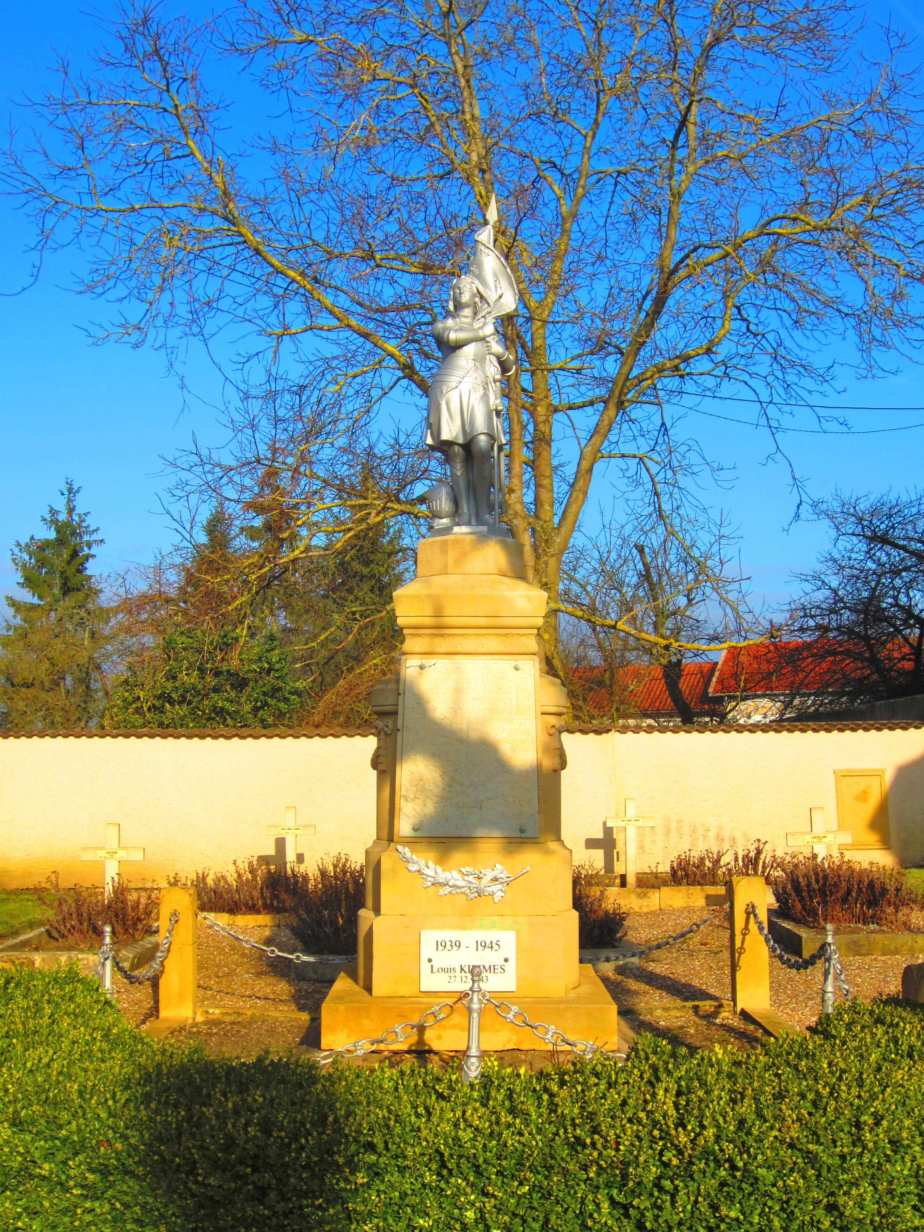 Jeanne arc Servigny Ste Barbe